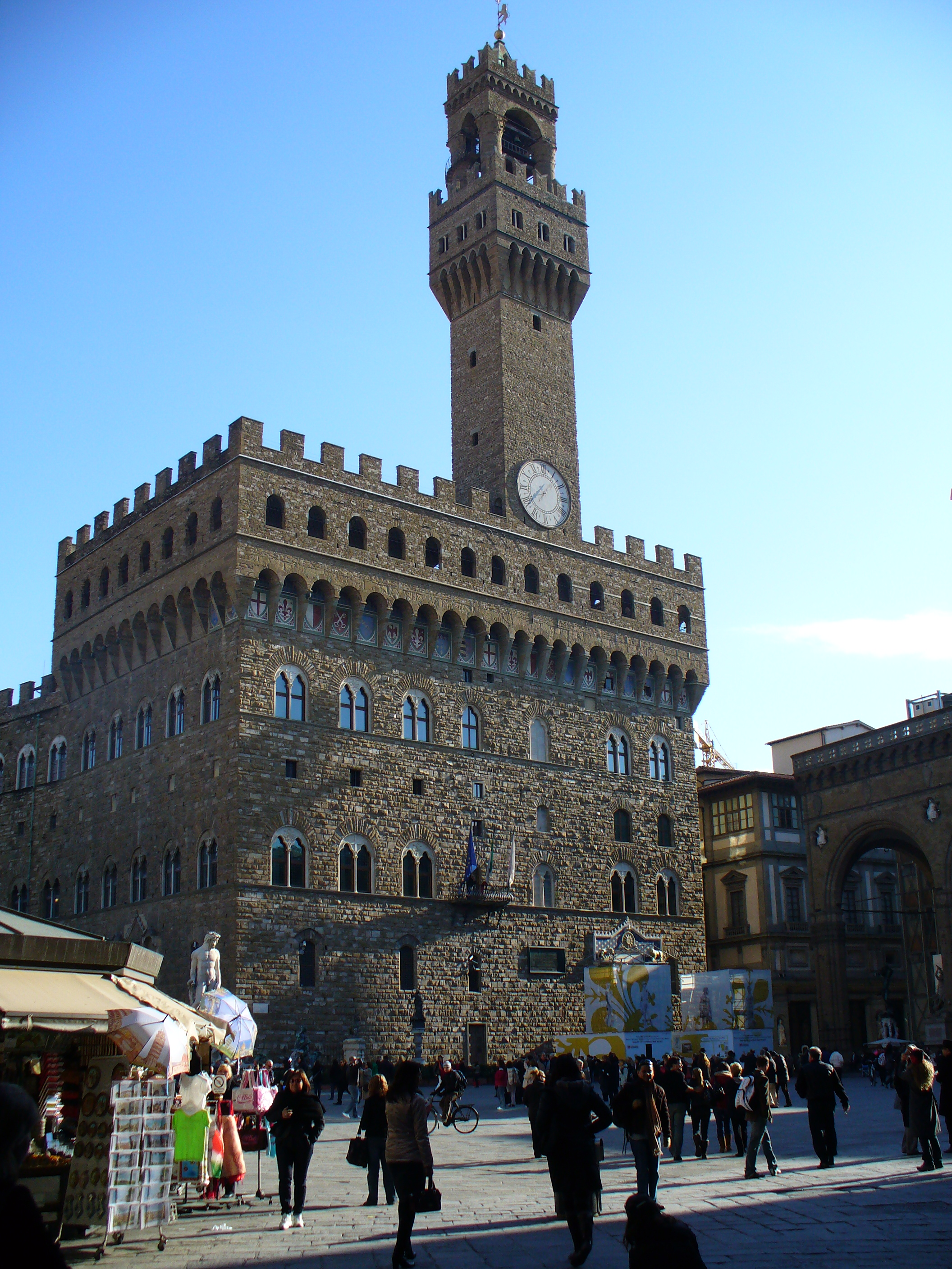 Exterior of Palazzo Vecchio Florence